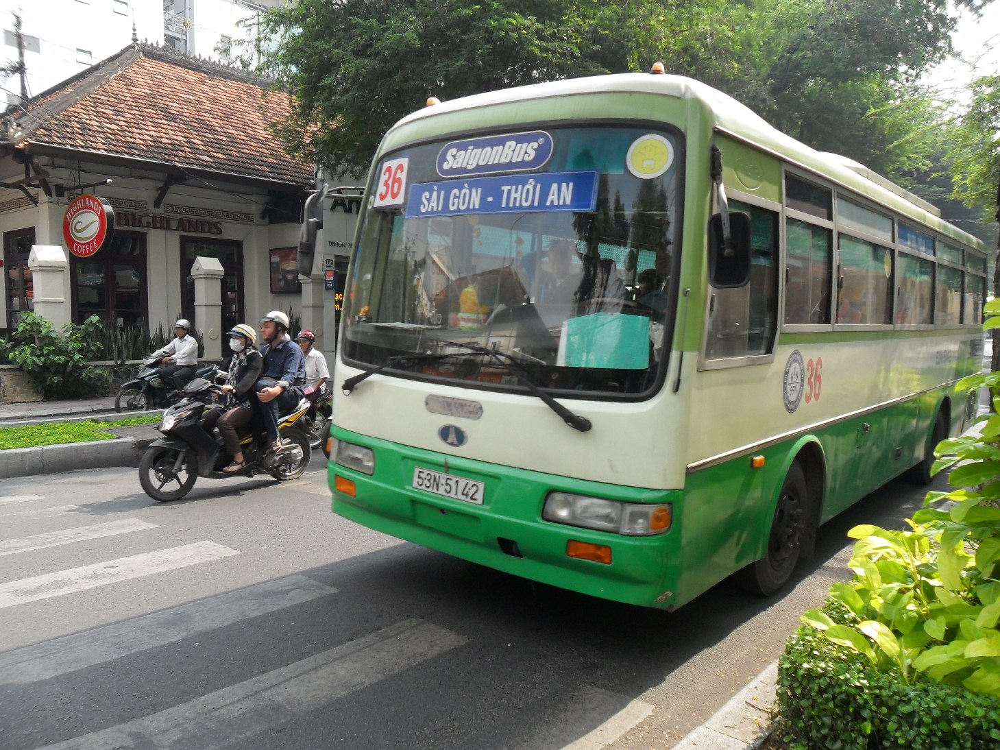 A bus in Saigon, Vietnam